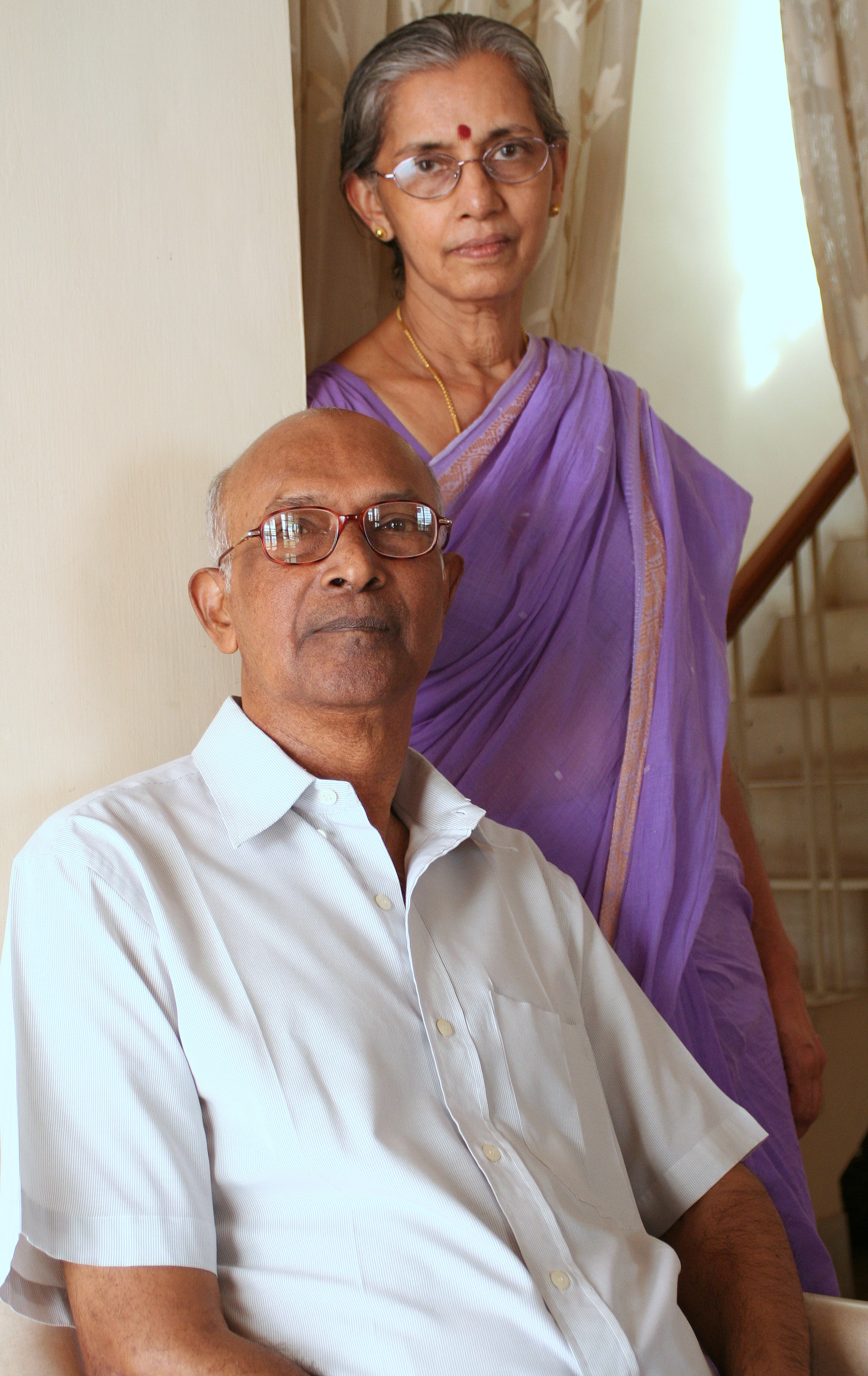 Dr. K S Manilal